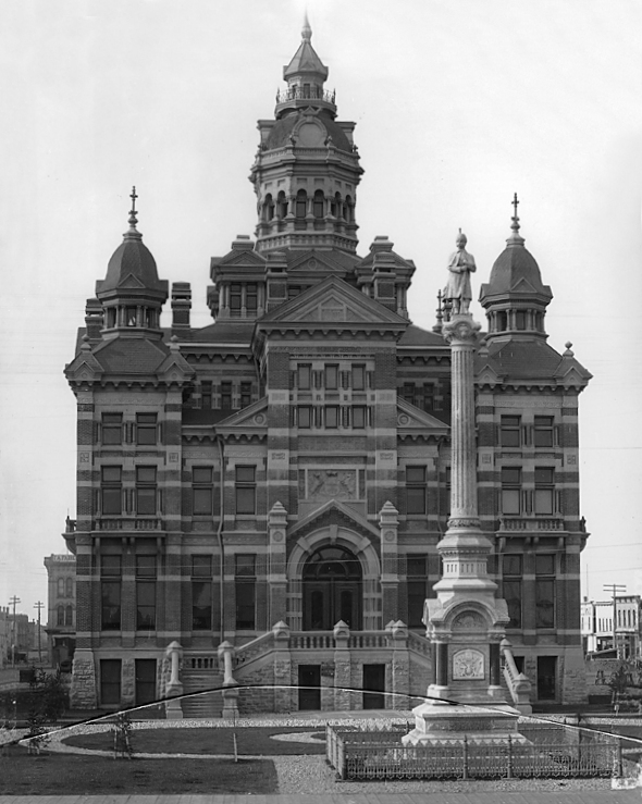 City Hall and Volunteer Monument, Winnipeg, Manitoba, Canada, 1887